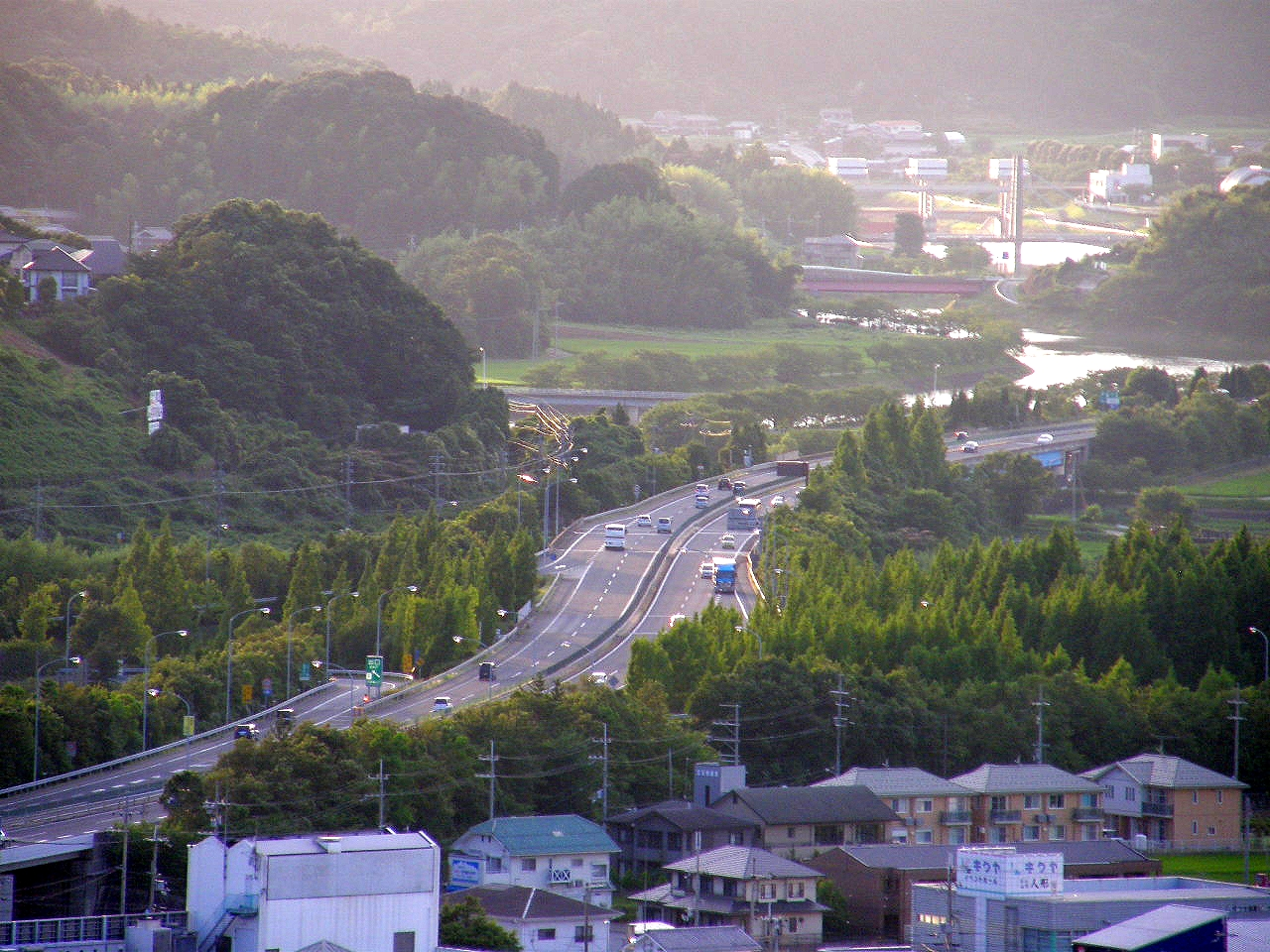 MAIZURU-WAKASA EXPRESSWAY